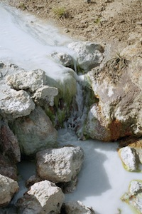 Geothermal stream in Iceland. (Alex Miller, Direct